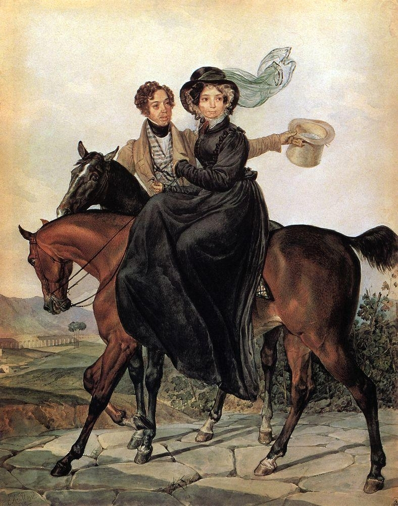 Portrait of K. A. and M. Ya. Naryshkin . 1827. Watercolor on paper. 44.1 x 35.4 cm. The State Russian Museum, St. Petersburg, Russia.